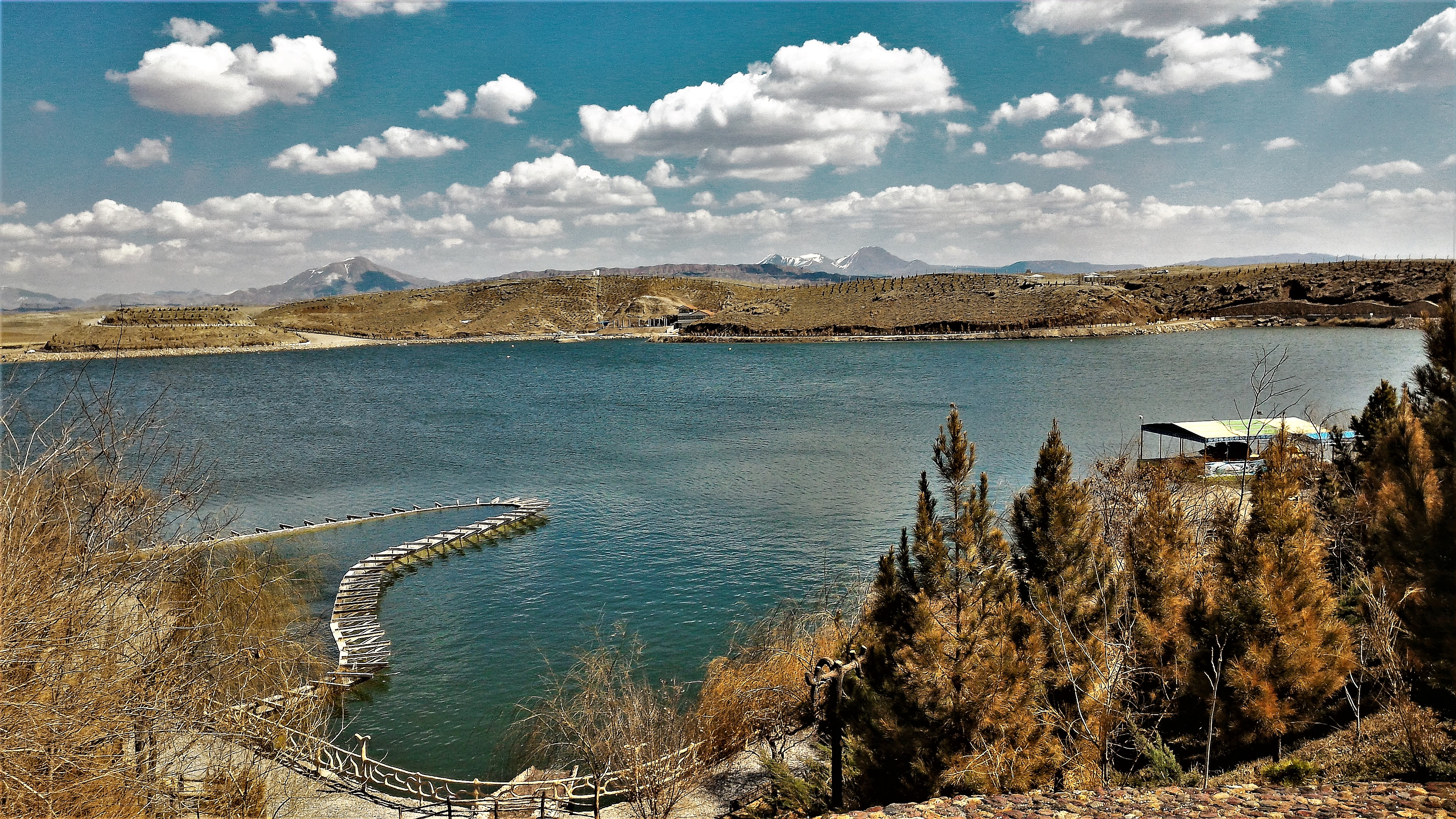 Ammand dam, Tabriz, Iran